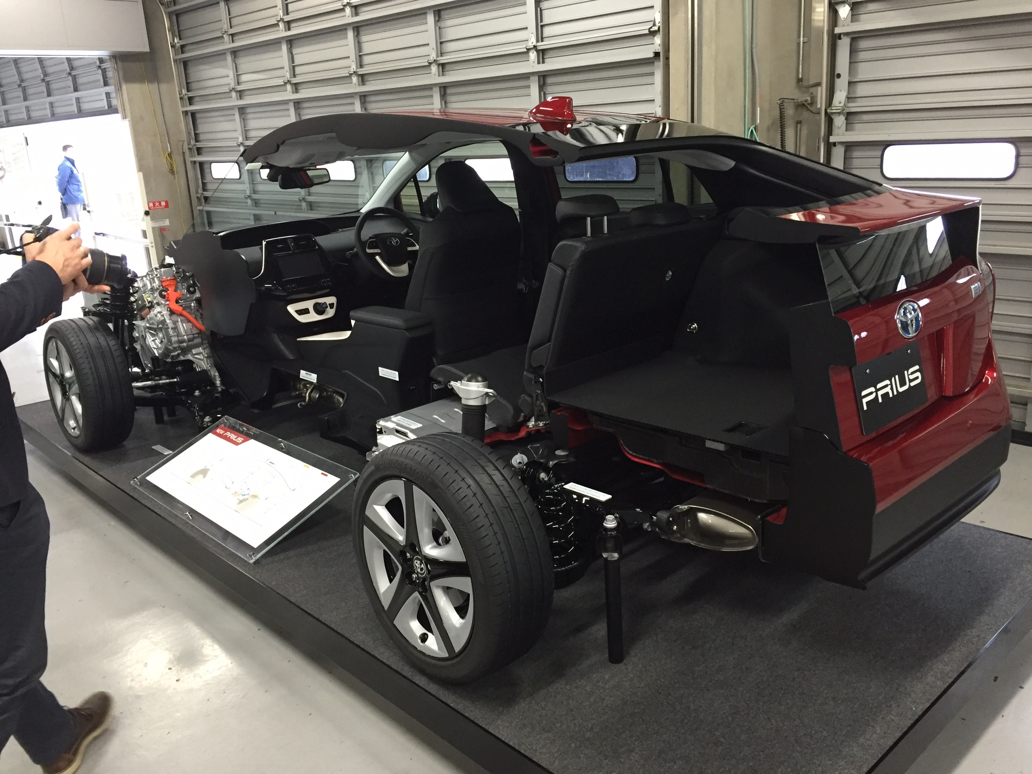 TNGA platform in Toyota Prius 2016 at the Tokyo Motor Show 2015